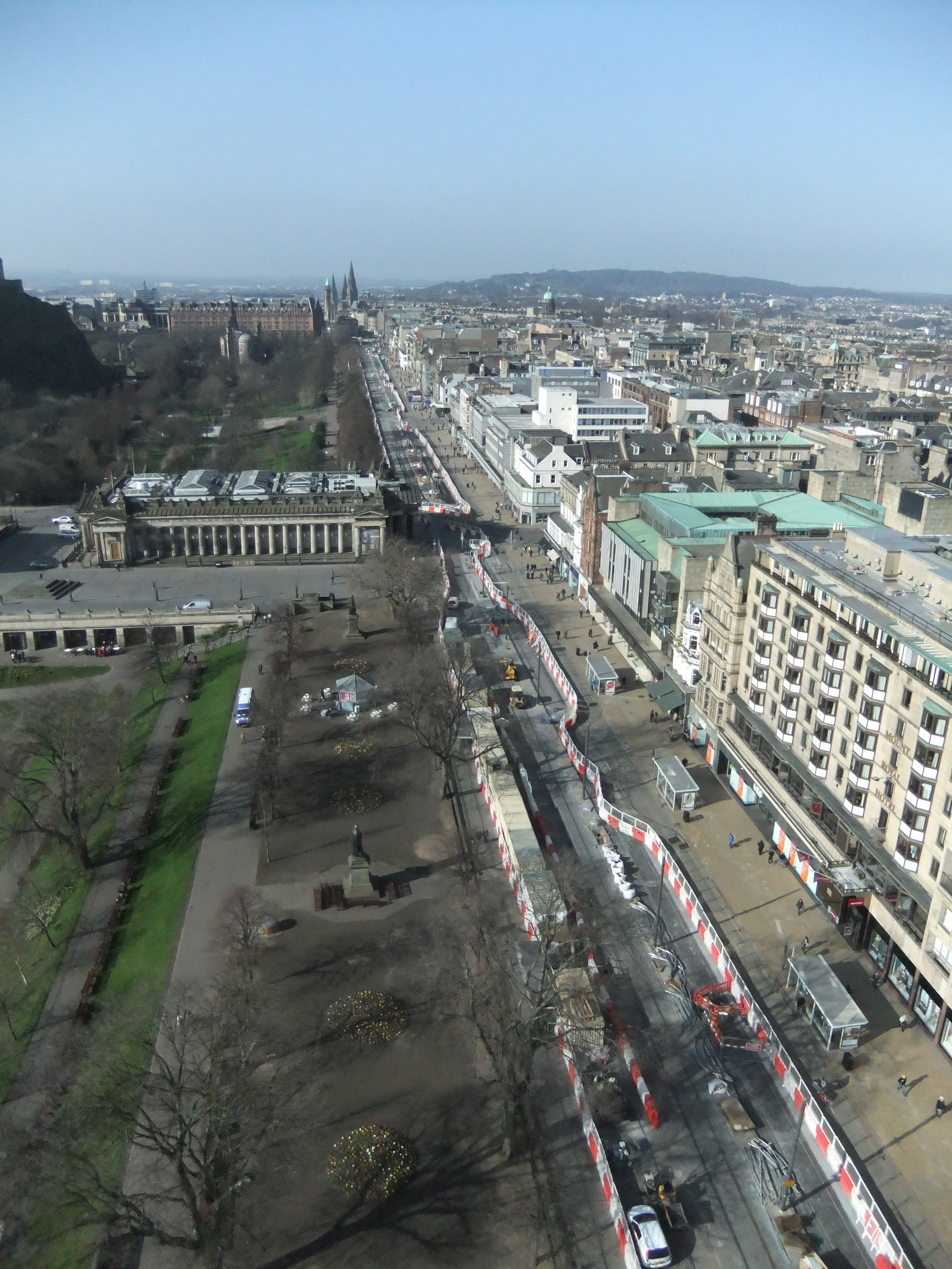 The notorious roadworks stretch as far as the eye can see. Though for a visitor it's kind of nice to have Princes Street free of hurtling buses and traffic for a change.